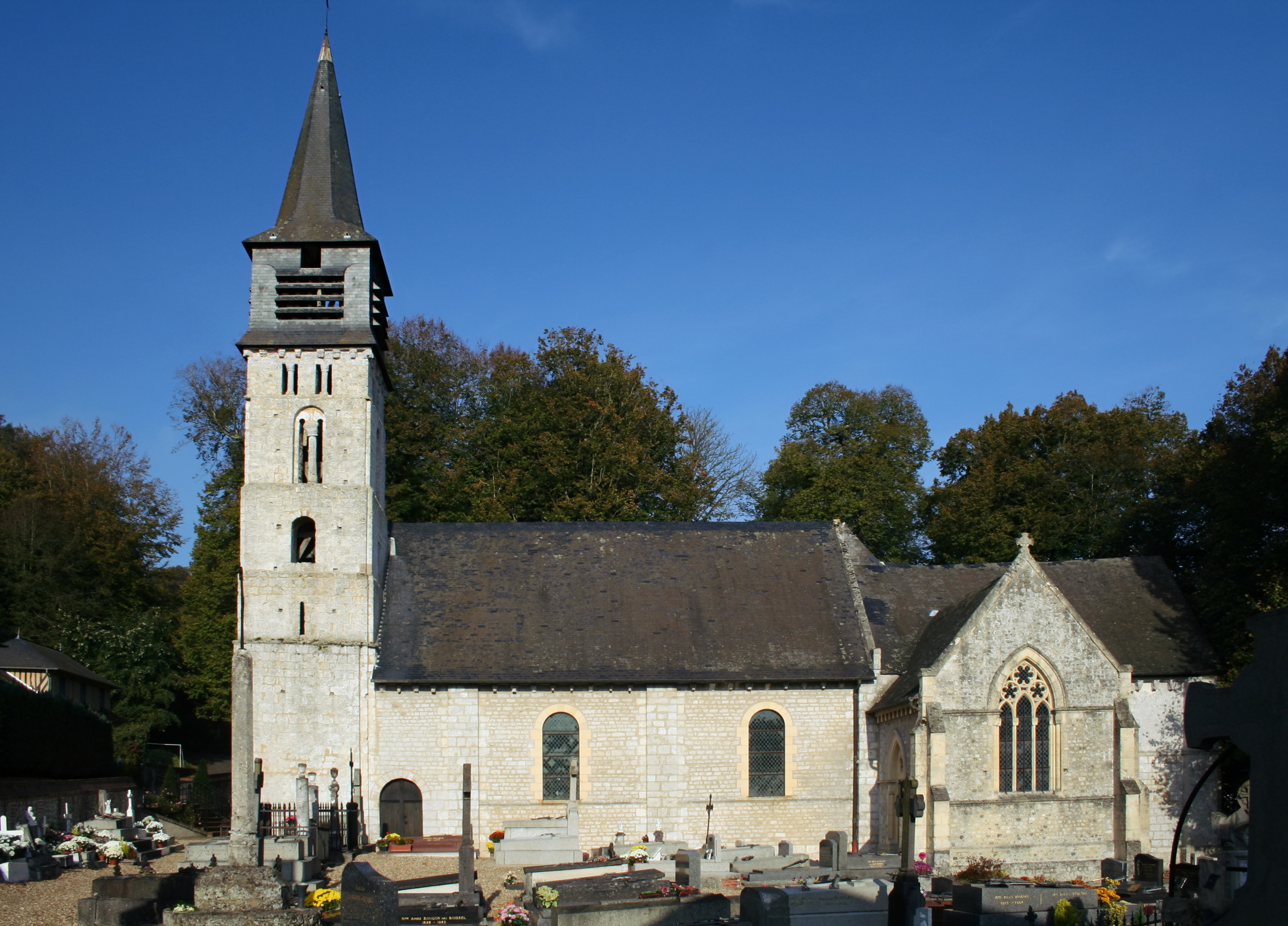 General view of the church of Saint-André-d'Hébertot (Calvados, Normandy, France) in its churchyard. Romanesque belltower Nave: windows restaurated during 19th century. Gothic revival sacristy Chevet: typical Normandy 12th century romanesque architecture .